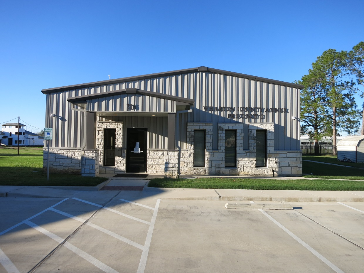 Photo shows the Wharton County Precinct 2 Annex (Justice of the Peace) at 736 Clubside Dr, East Bernard, TX 77435. View is toward the north.